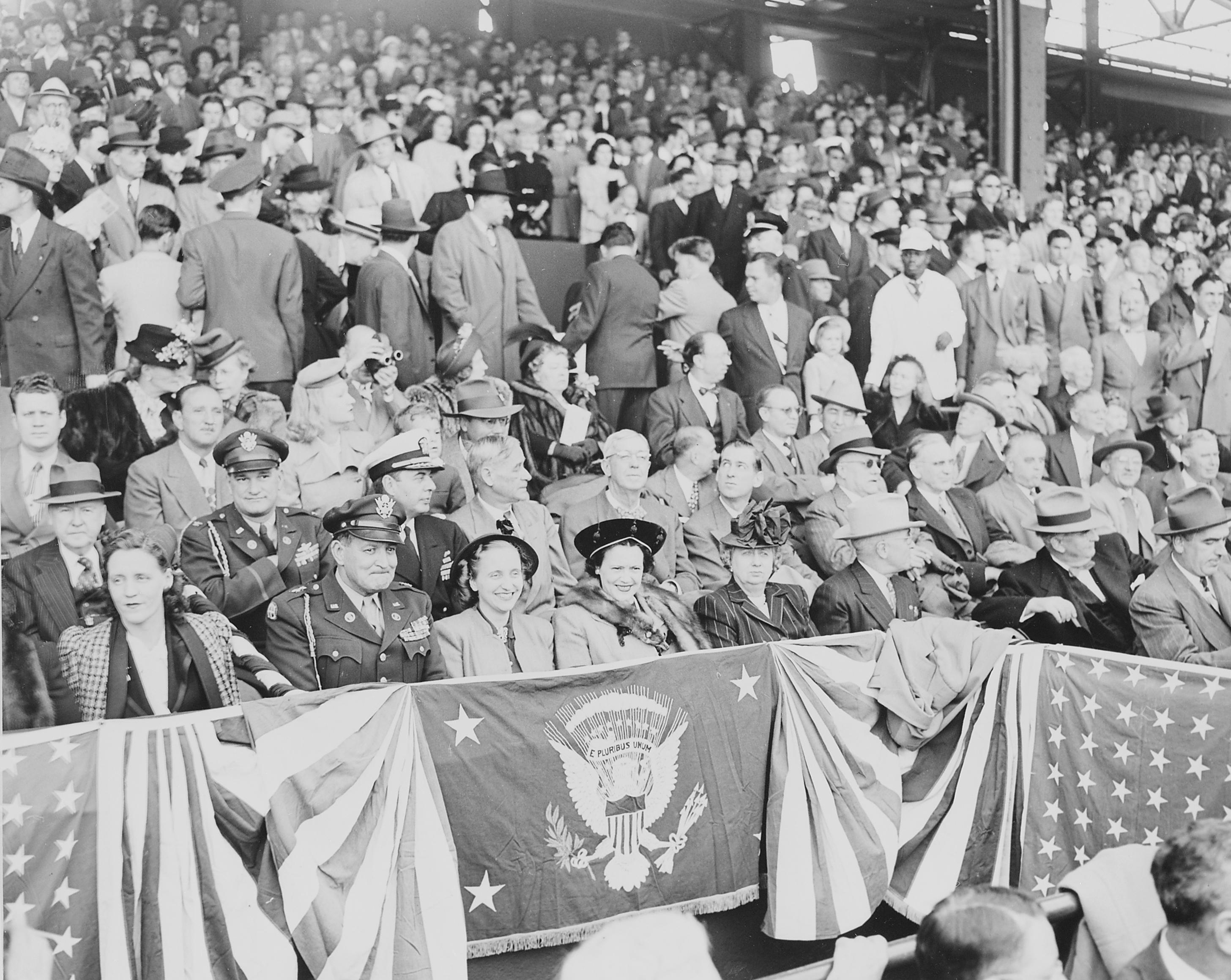 President Harry Truman attends the opening baseball game at Griffith Stadium in Washington, D. C. between Washington and New York. Seated L to R: Unidentified woman, Gen. Harry Vaughan, Margaret Truman, Mrs. John Snyder, Mrs. Bess Truman, President Truman.